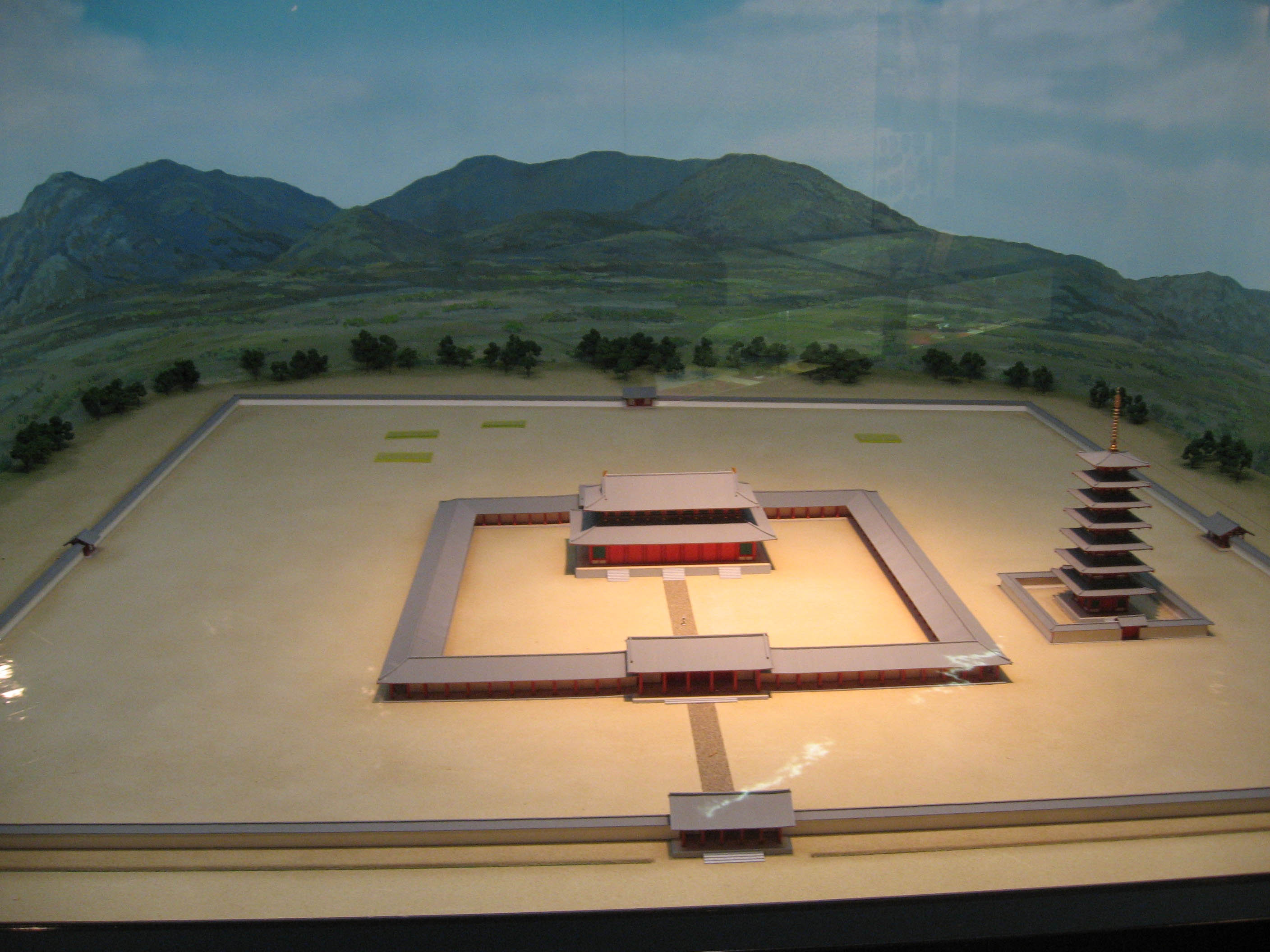 Miniature Model of Yamashiro Provincial Temple. 山城国分寺（恭仁京）復元模型。築地に囲まれているのが金堂（大極殿）。右が七重塔。京都府立山城郷土資料館